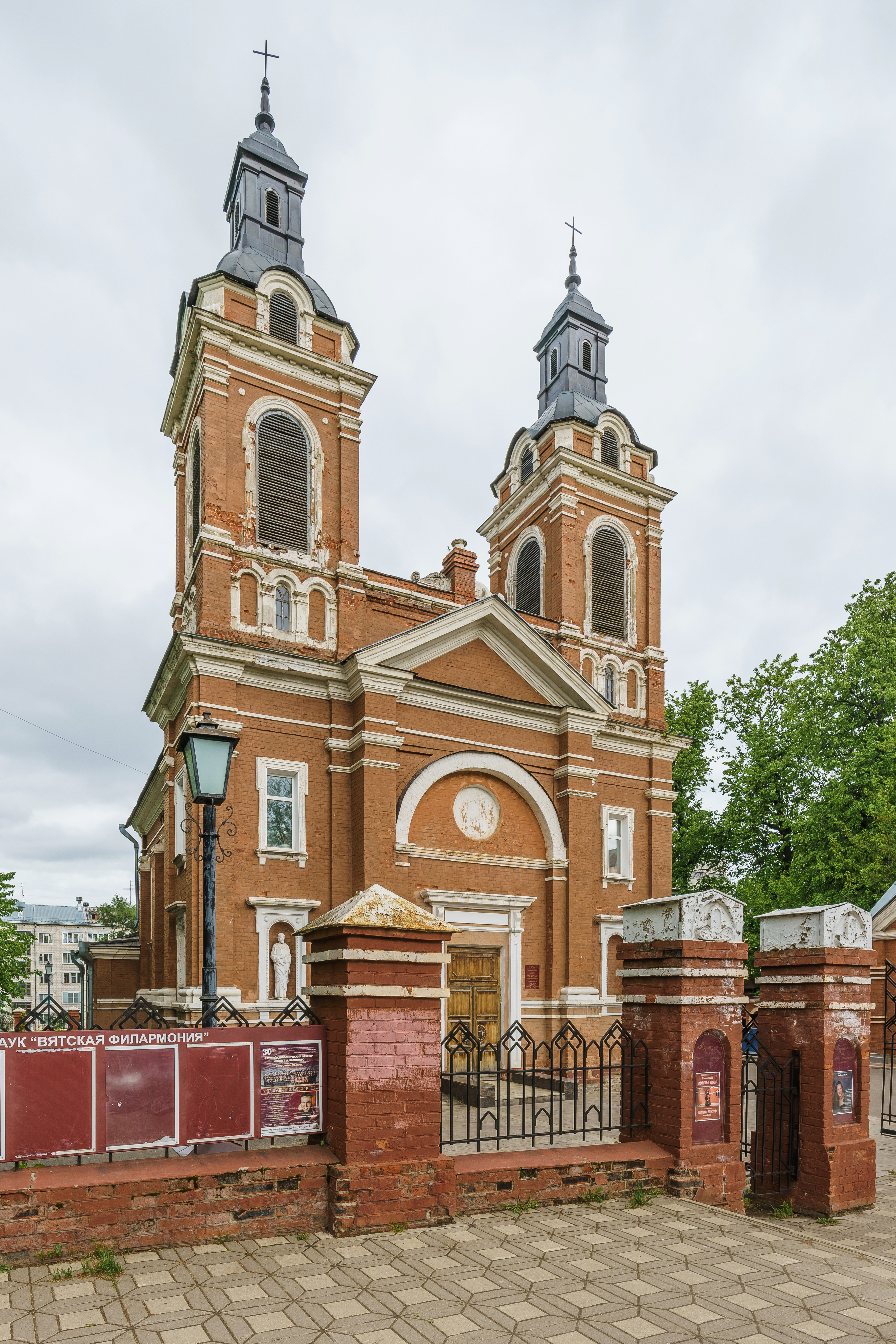 Former Sacred Heart Church in Kirov, Russia